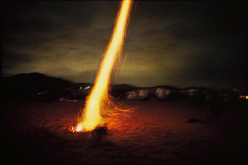 Florianópolis, Brazil. Photo: Guy Veloso, 2010